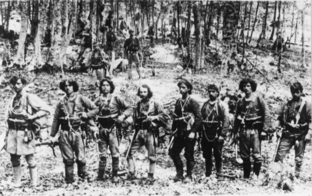 Rumanian cheta in Southern Macedonia